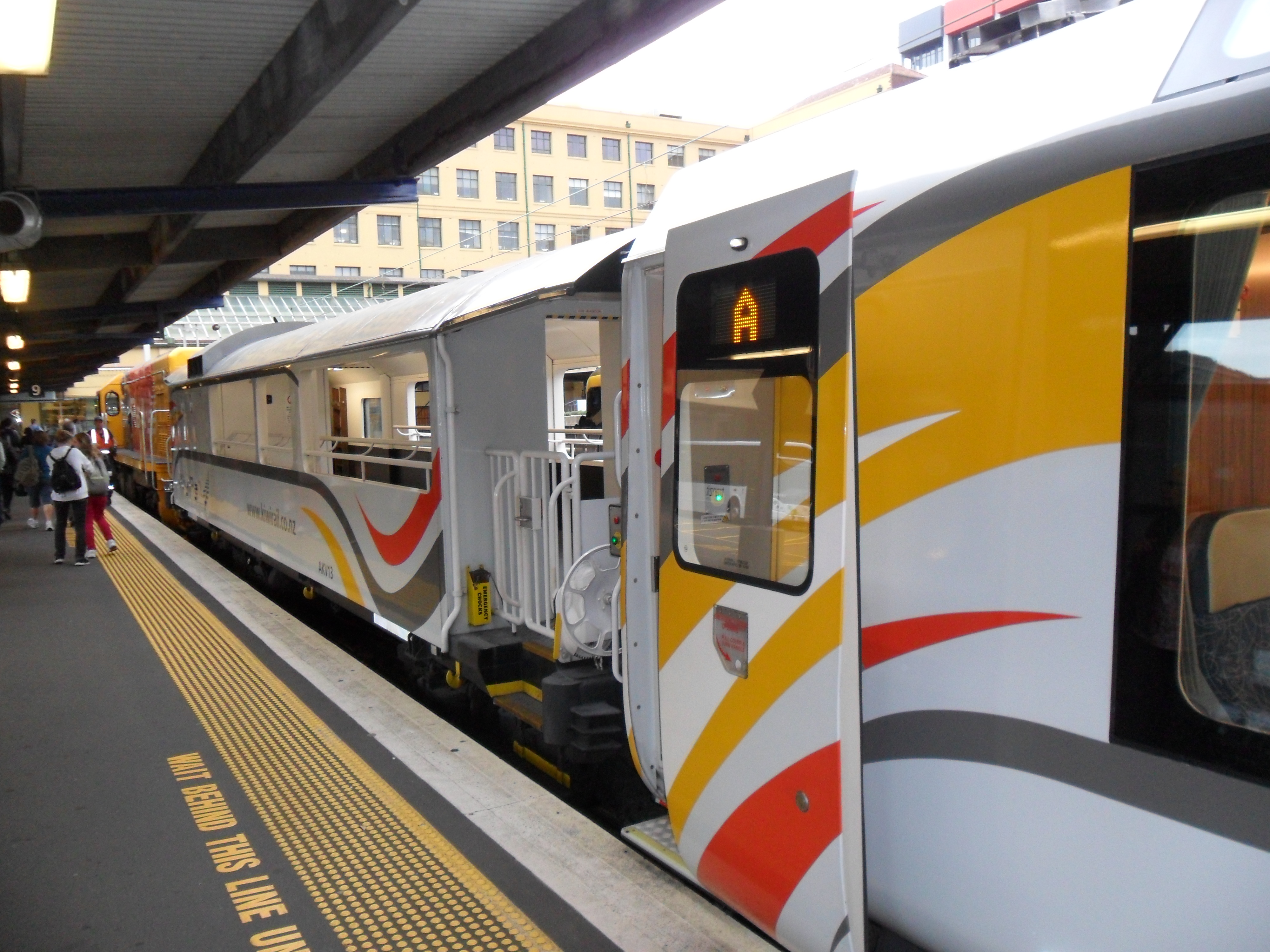 Northern Explorer AK carriages stationed at Wellington Station